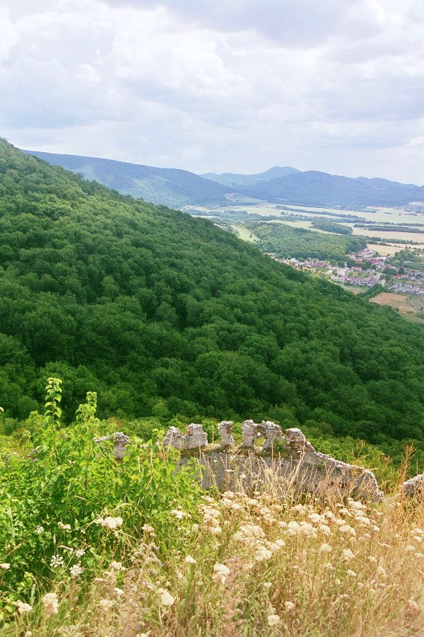 view from Plavecký hrad, Malé Karpaty, Western Slovakia